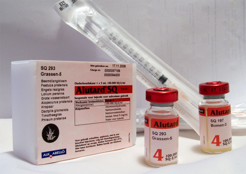 Supplies for allergy desensitization. This picture shows the packaging of 1 box, 2 bottles of allergen-containing liquid (tree and grass pollen) and 3 sterile packaged needles.